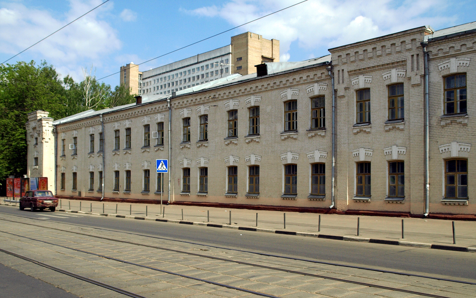 Volochaevskaya Street, Moscow - the Military University.